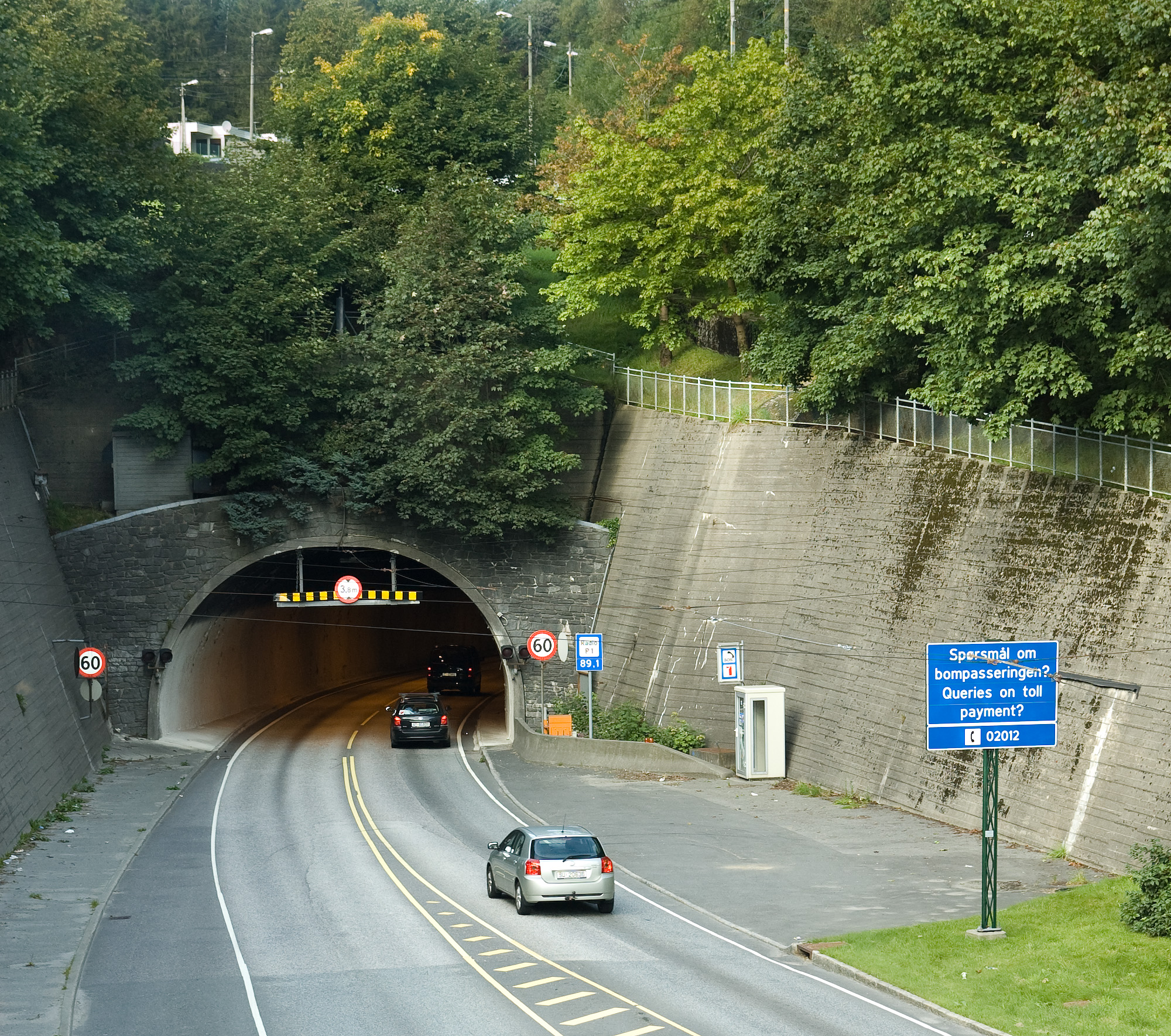 Løvstakktunnelen, a tunnel in Bergen, Norway connecting Fyllingsdalen valley to the city centre.